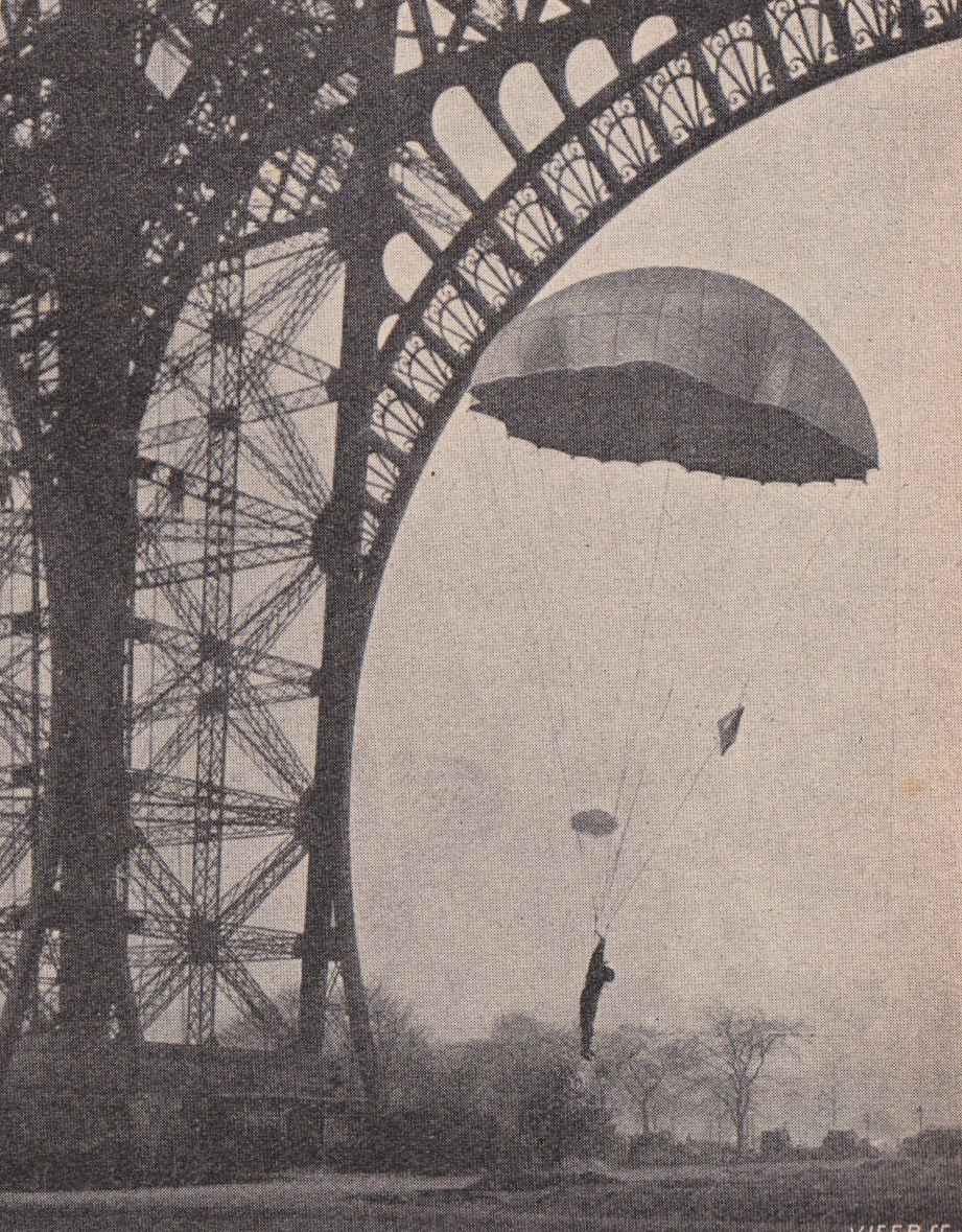 A Parachute, as saving vehicle in Airplanes. De successful test was conducted at the Eiffeltower in Paris with a puppet weighing 75 Kg. The vehicle weighted 21 Kg. The length of the robe was 9 M. De aviator hangs in the designated rack to which the parachute is attached. The future will learn if a vehicle like this will deploys in time, or if the aviator access it in time together with enough presence of mind manage to leave his machine.